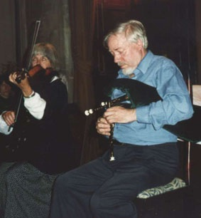 Robert Sherlaw Johnson playing his Northumberland pipes, accompanied by his wife on the violin, at Spode Music Week in 1994